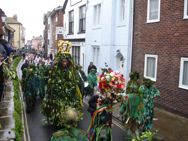 May Day Hastings East Sussex. Jack in the Green Festival when Hastings is host to Morris Dancers from far and wide. Picture shows Green Jack together with the Mad Jack Morris behind, named after Mad Jack Fuller from Brightling. Jack represents an ancient symbol of nature and fertility. Customs of this nature go back to the 16-17 century.